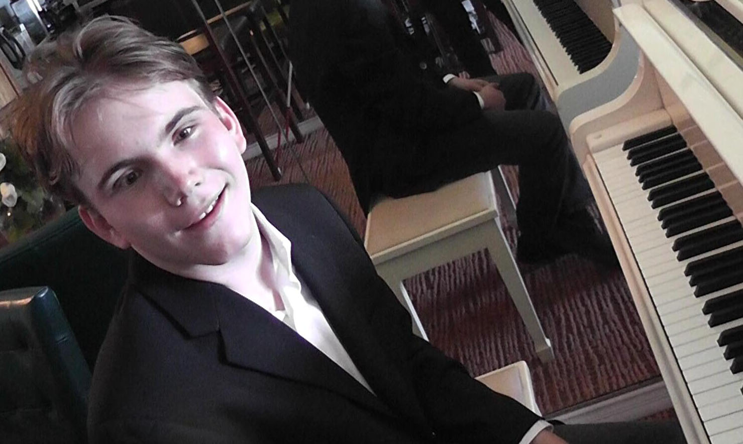 Rex Lewis-Clack taking a break from practicing The Liszt Dante Sonata